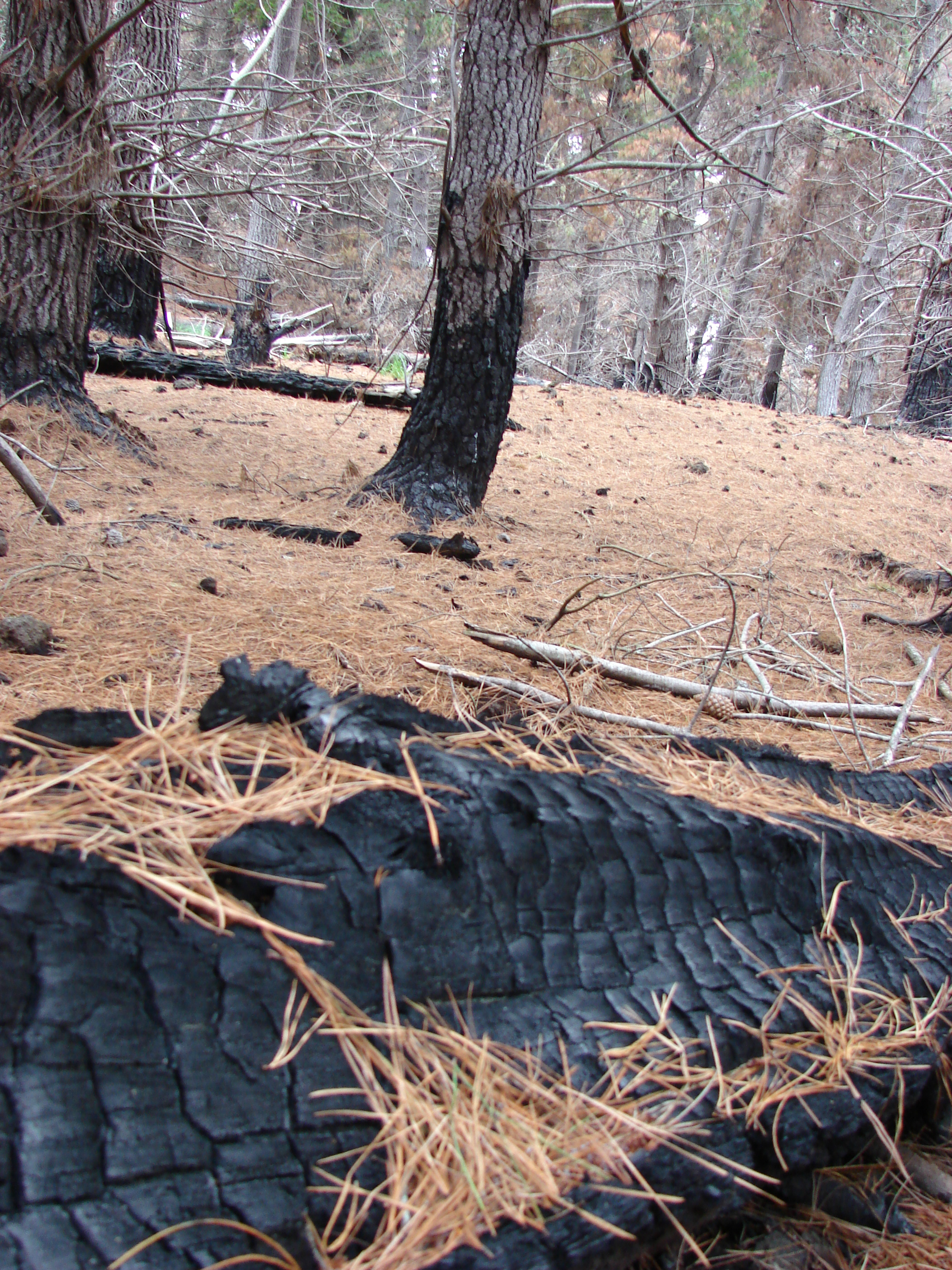 Pinus sp. (Pine) Fire area charred wood and duff at Polipoli, Maui, Hawaii. September 08, 2007 [ #070908-9359 - Image Use Policy